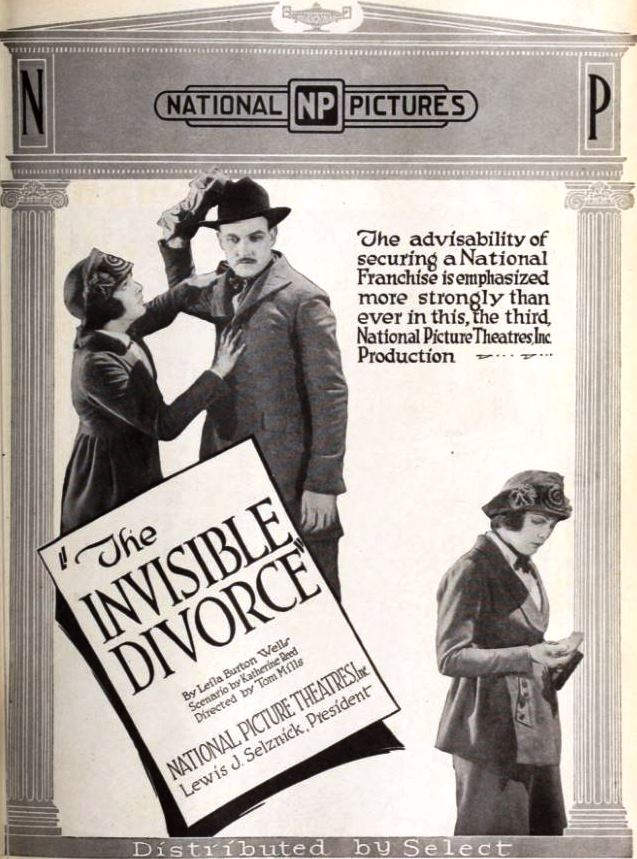 Advertisement for the American drama film The Invisible Divorce (1920) with Walter McGrail and Leatrice Joy, on page 19 of the May 29, 1920 Exhibitors Herald.